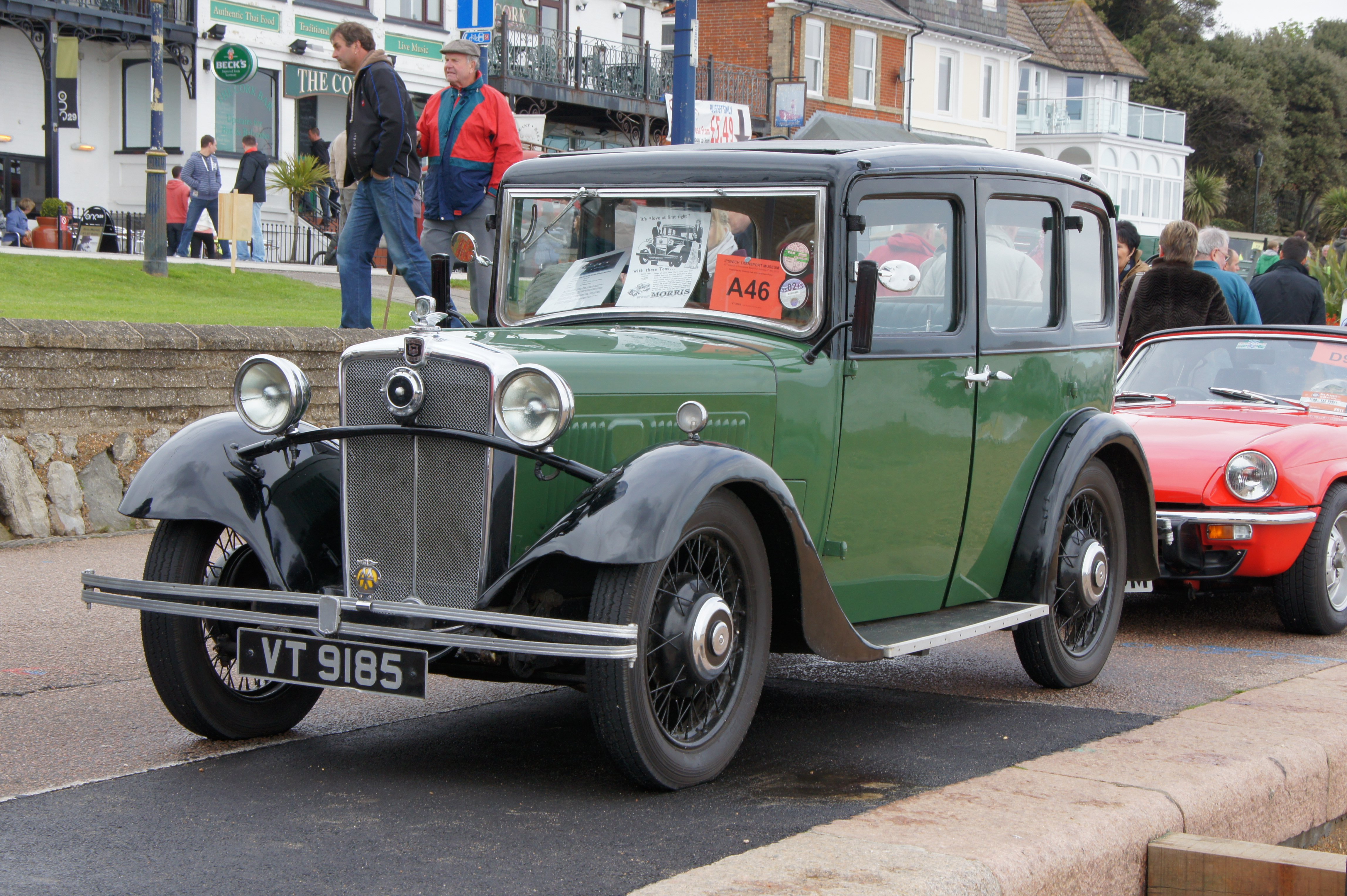 1933 Morris Ten (not Ten Four) (DVLA) Felixstowe